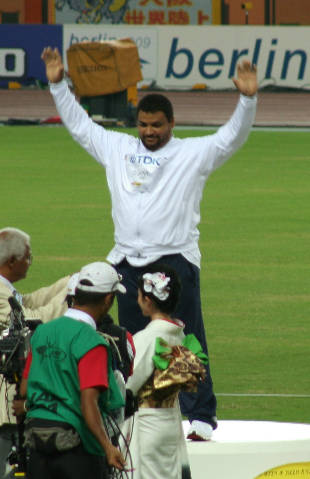 World Athletics Championships 2007 in Osaka - Reese Hoffa at the Men's Shot Put Victory Ceremony